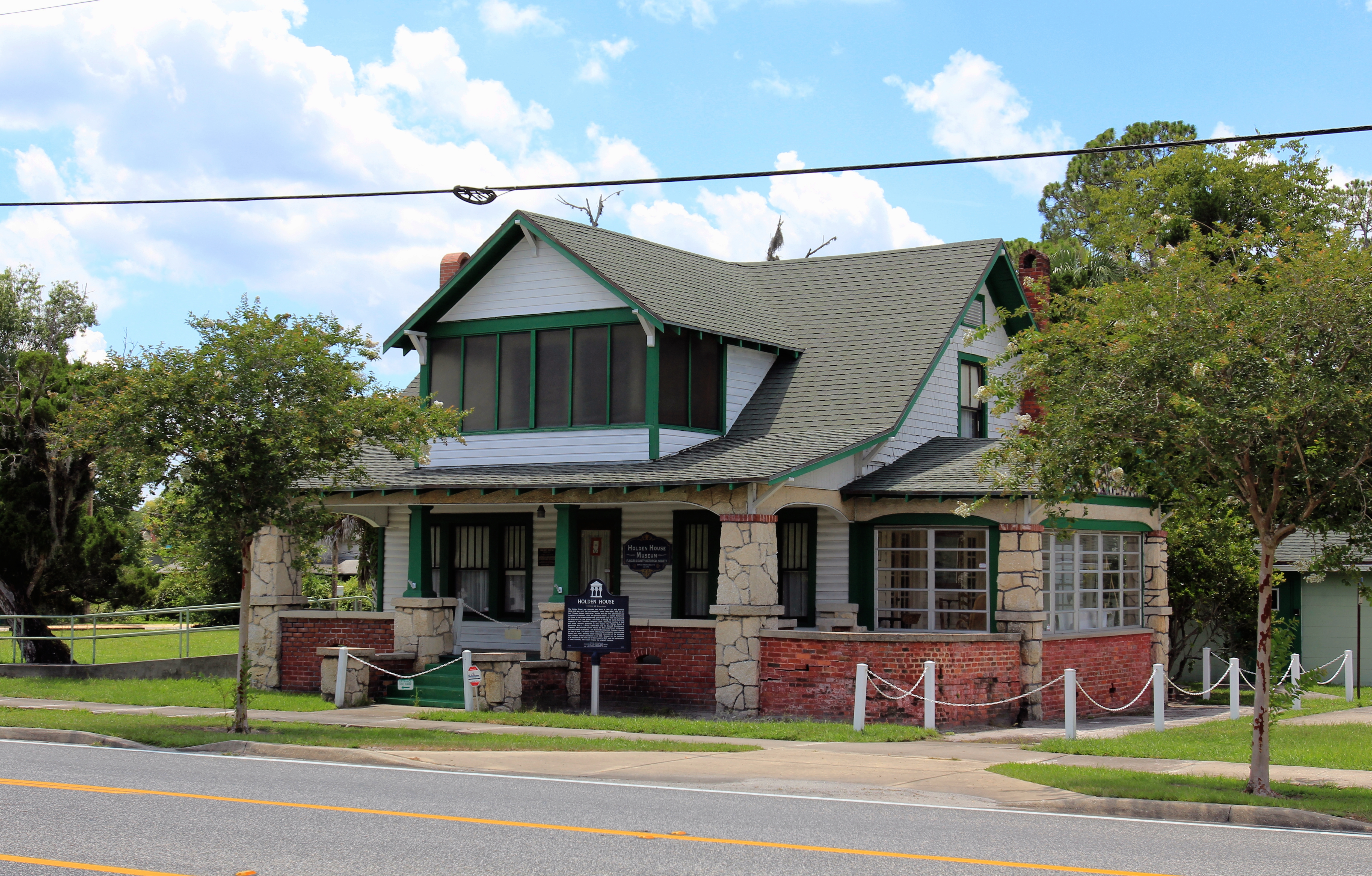 Holden House, Bunnell, Florida - SE Front View - new white aluminum siding on top gable of the front dormer which replaced the original glass mosaic that was ruined during Hurricane Matthew.